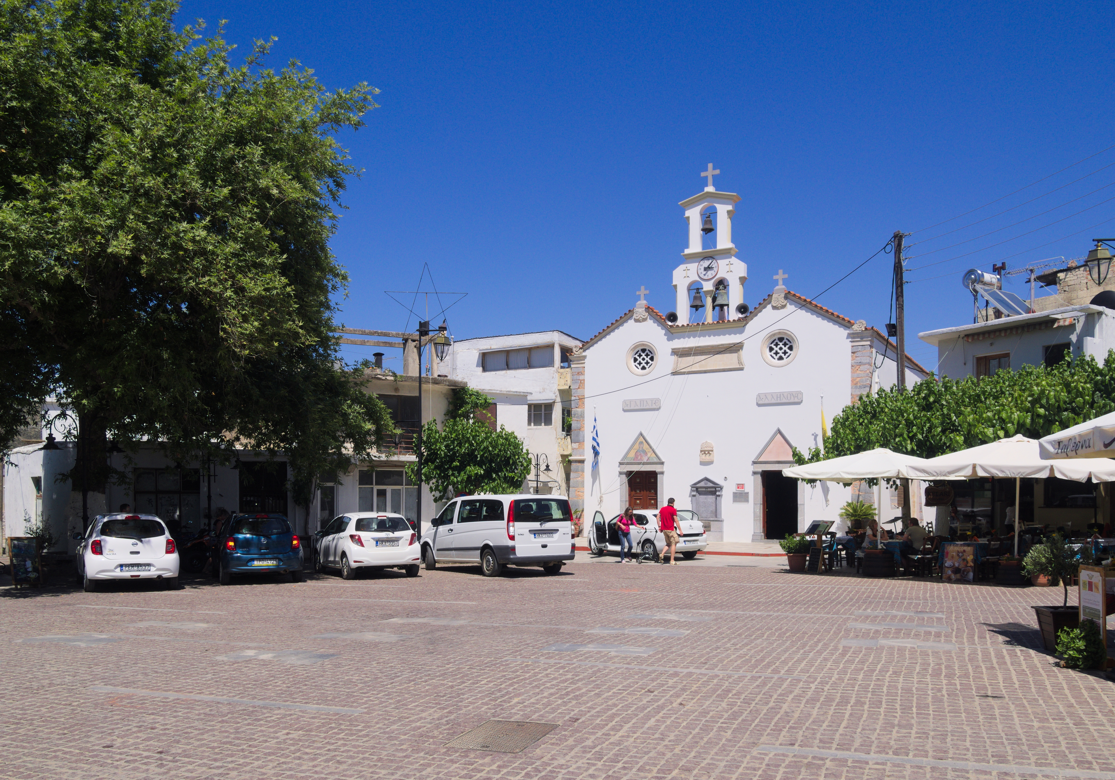 The central square of Mochos, Crete.